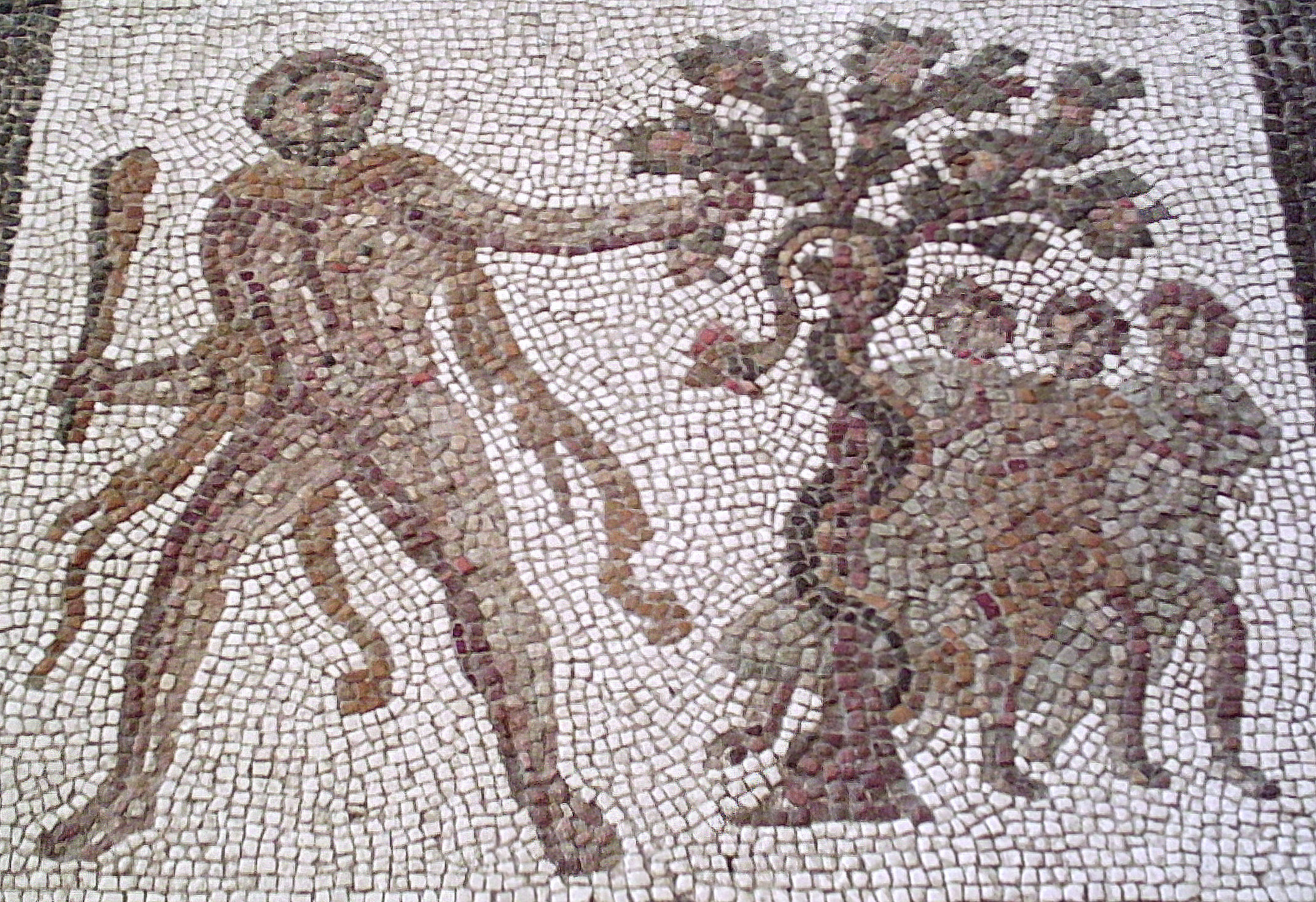 Hercules stealing the golden apples from the Garden of the Hesperides. Detail of The Twelve Labours Roman mosaic from Llíria (Valencia, Spain).